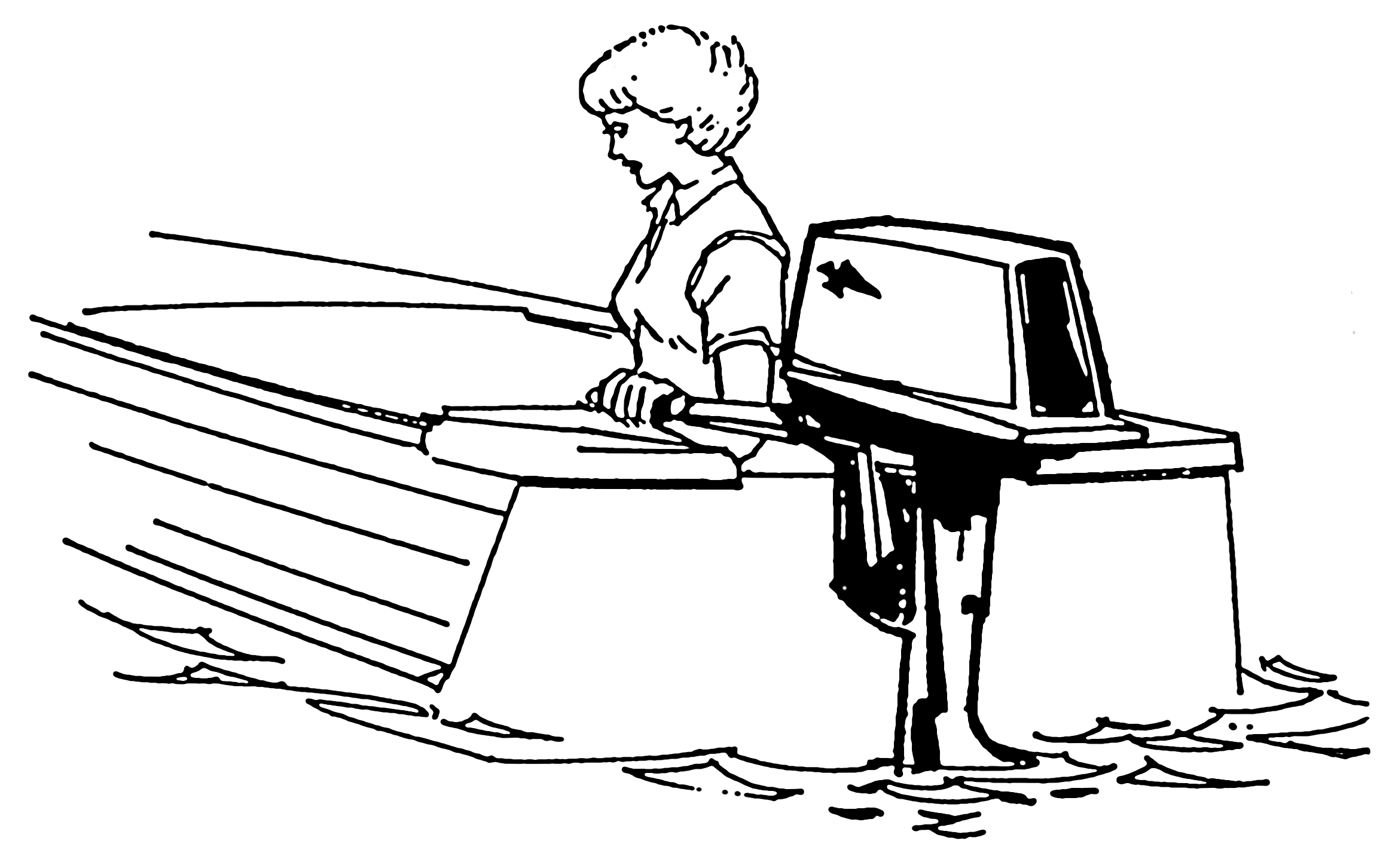 Line art drawing of an outboard motor.